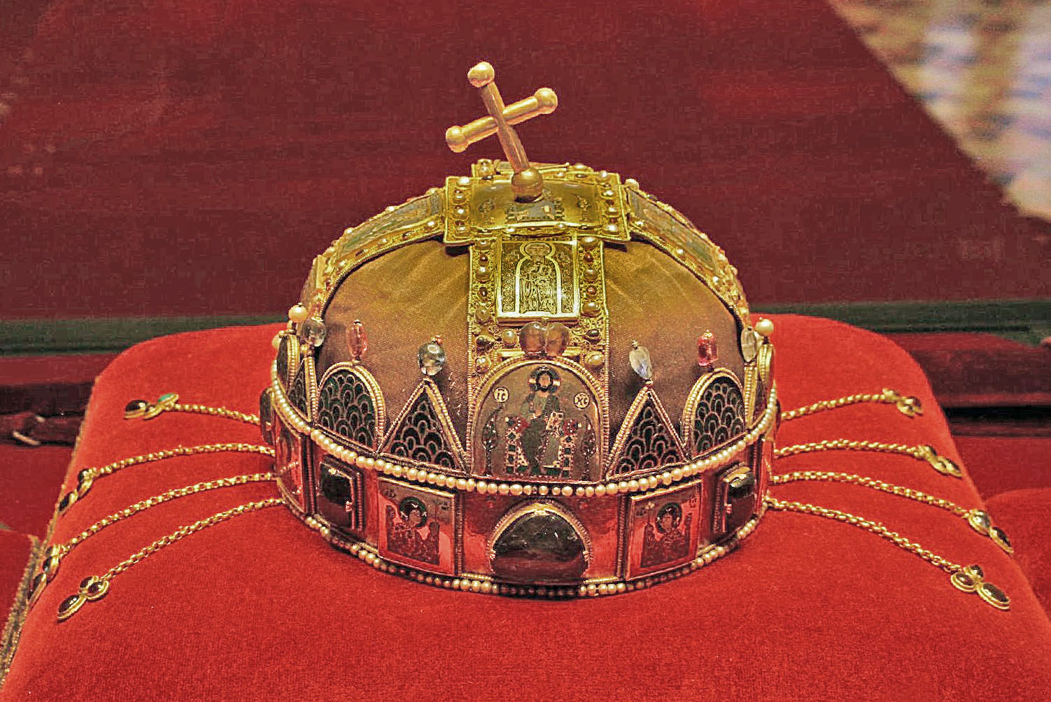 A Szent Korona/ The Holy Crown.